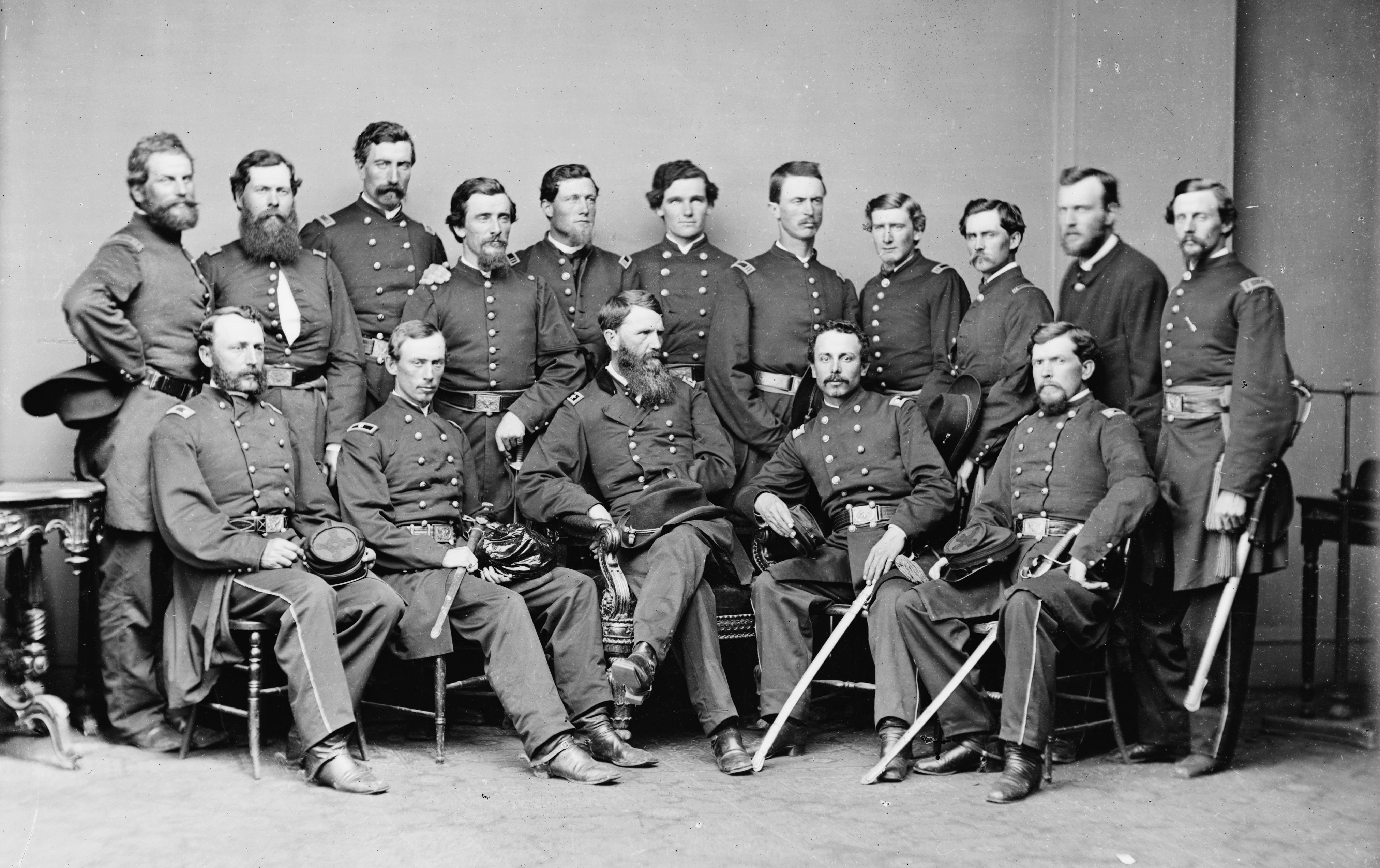 Francis Preston Blair, Jr. and staff. Library of Congress description: "General Frank Blair and Staff"